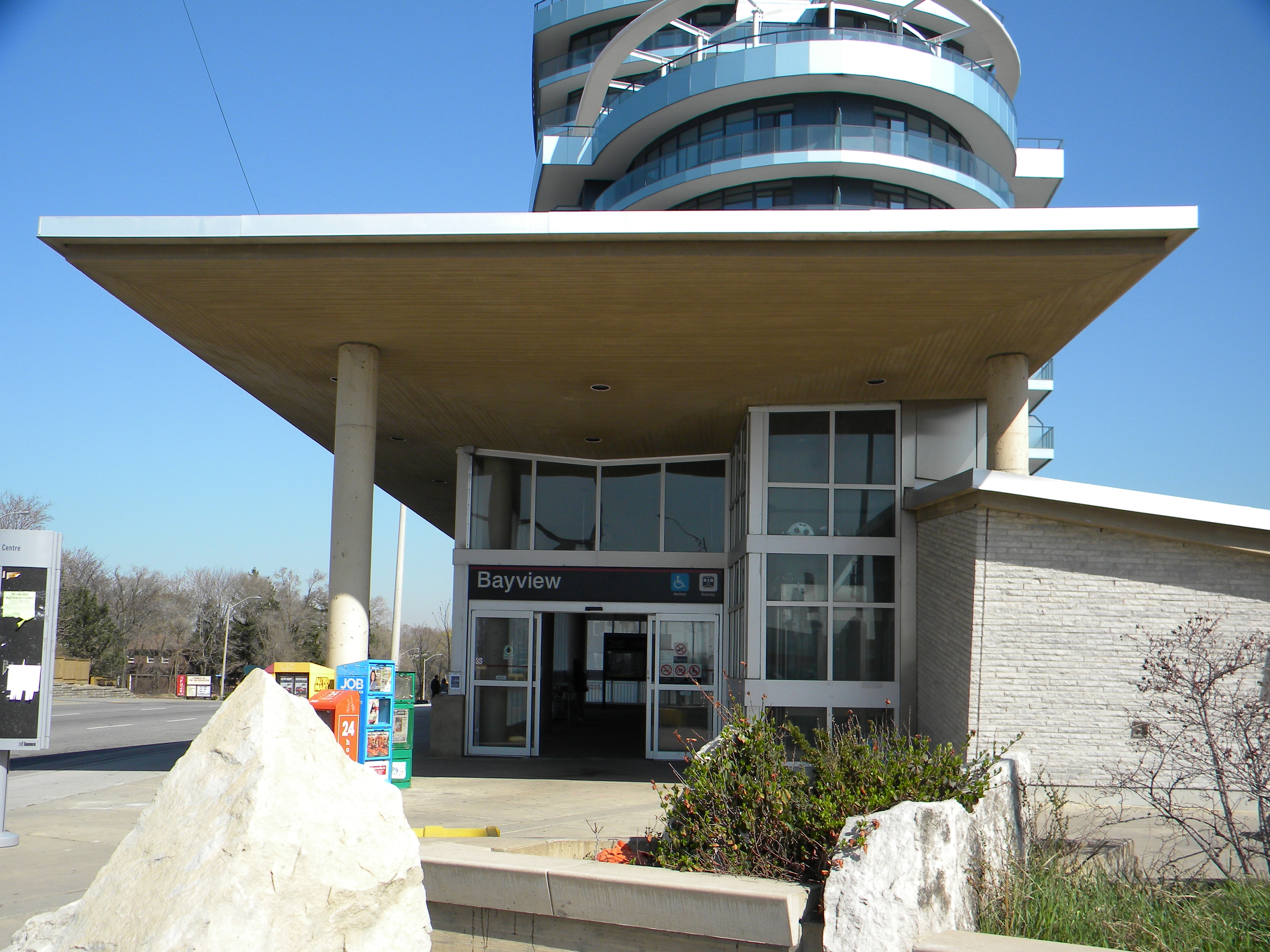 A photo of the Sheppard Ave. entrance to Bayview subway station.